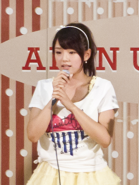 Ai Shinozaki is a Japanese gravure idol.